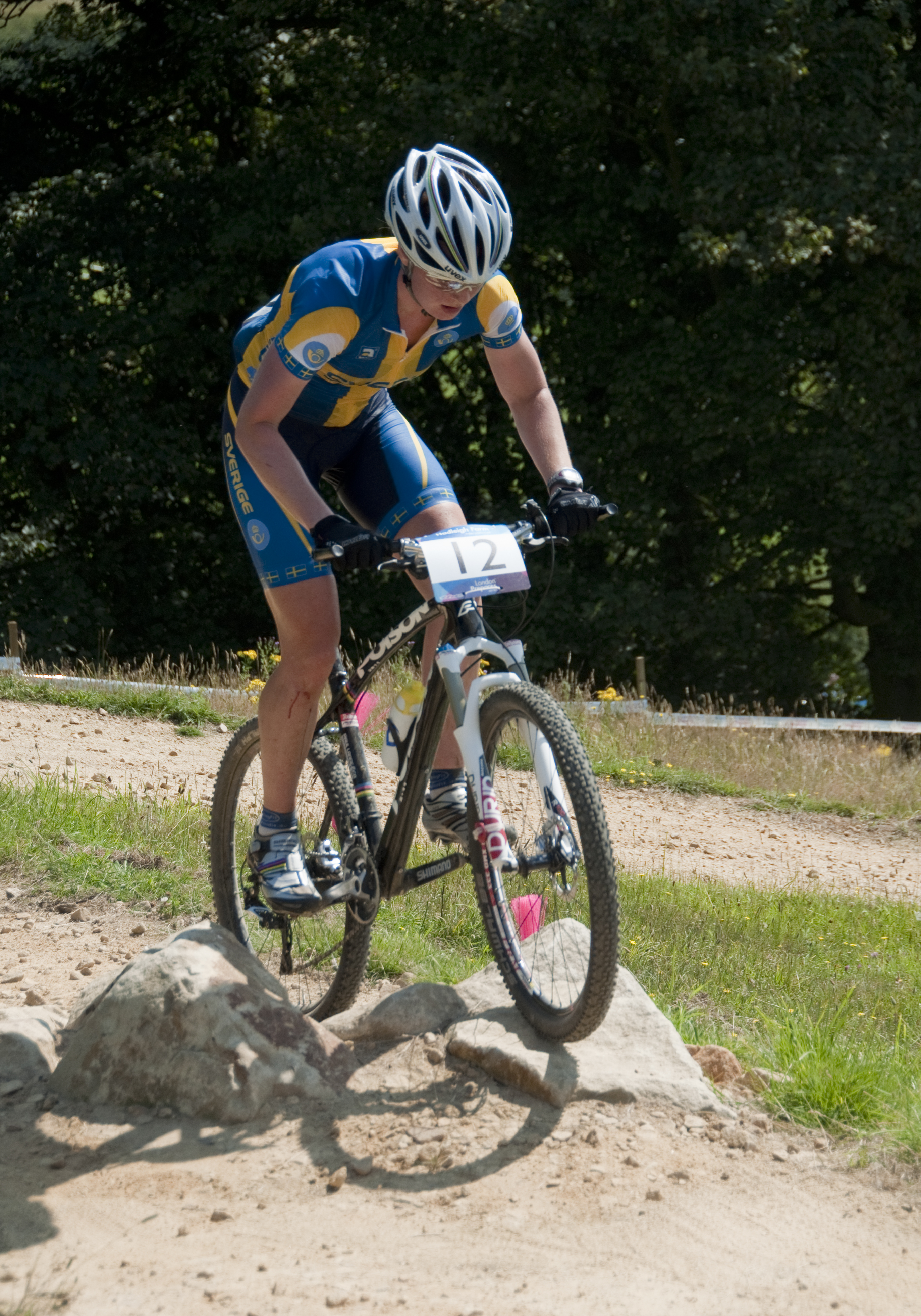 Engen on the 2012 course